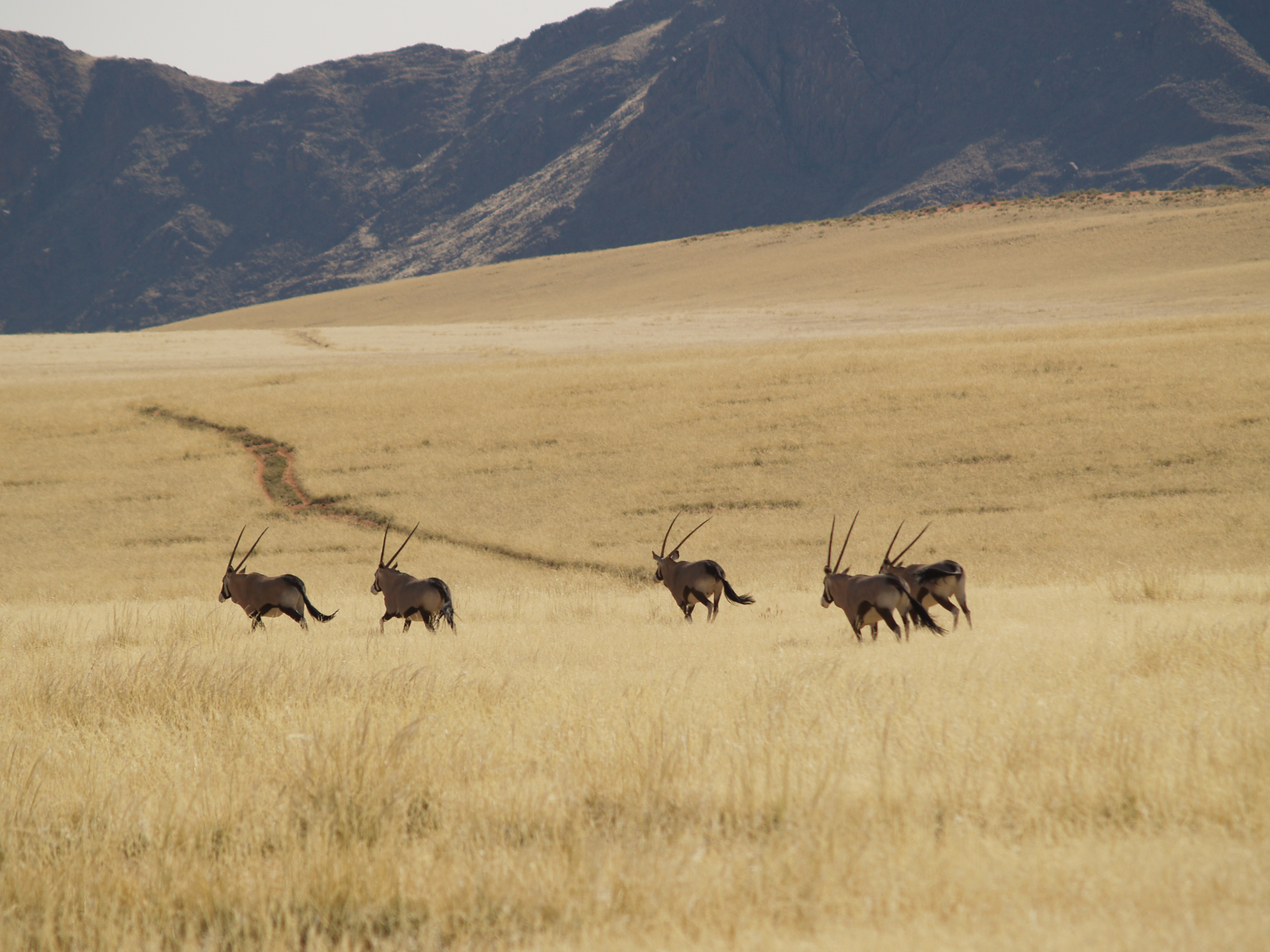 a pride of gemsbok in the Namib Rand Reserve, Namibia.